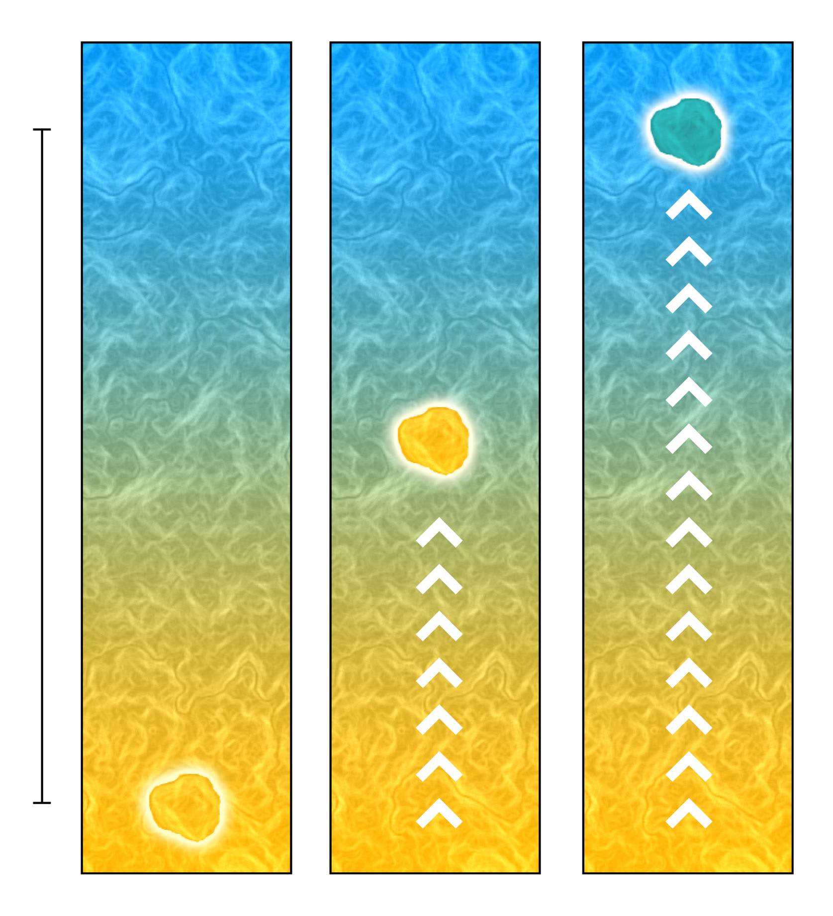 This is an image displaying what a mixing length is in the context of fluid mechanics.